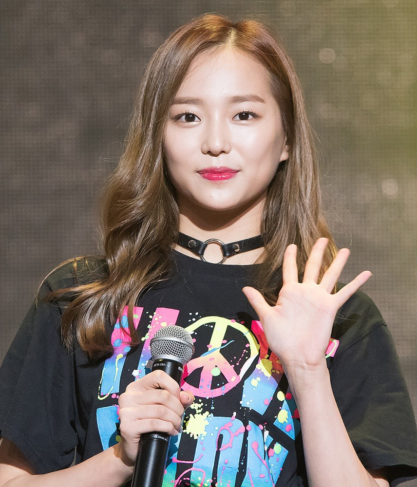 160903 CLC Jang Yeeun at the MTV Asia Music Stage